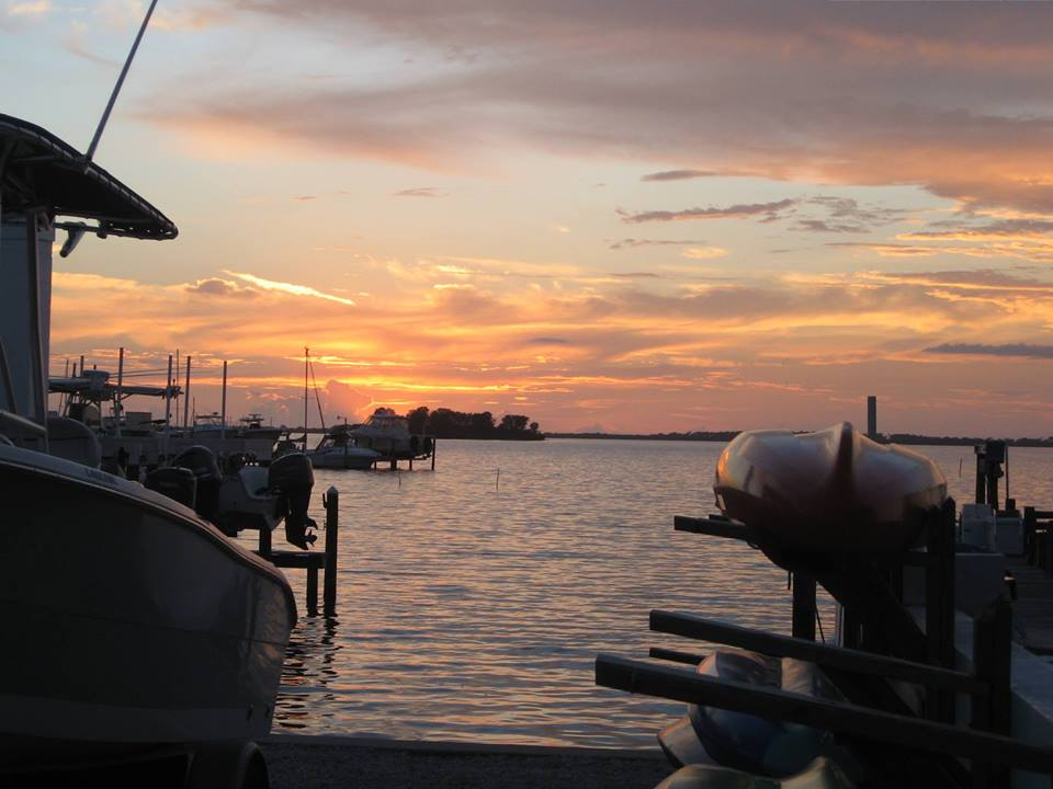 Previewing an Ozona property on Bayshore Drive for an out of state client.This is a peak at the late sunset through the docks at the quaint Speckled Trout Marina. P.S. - The sunset sold it; was under contract in two days!